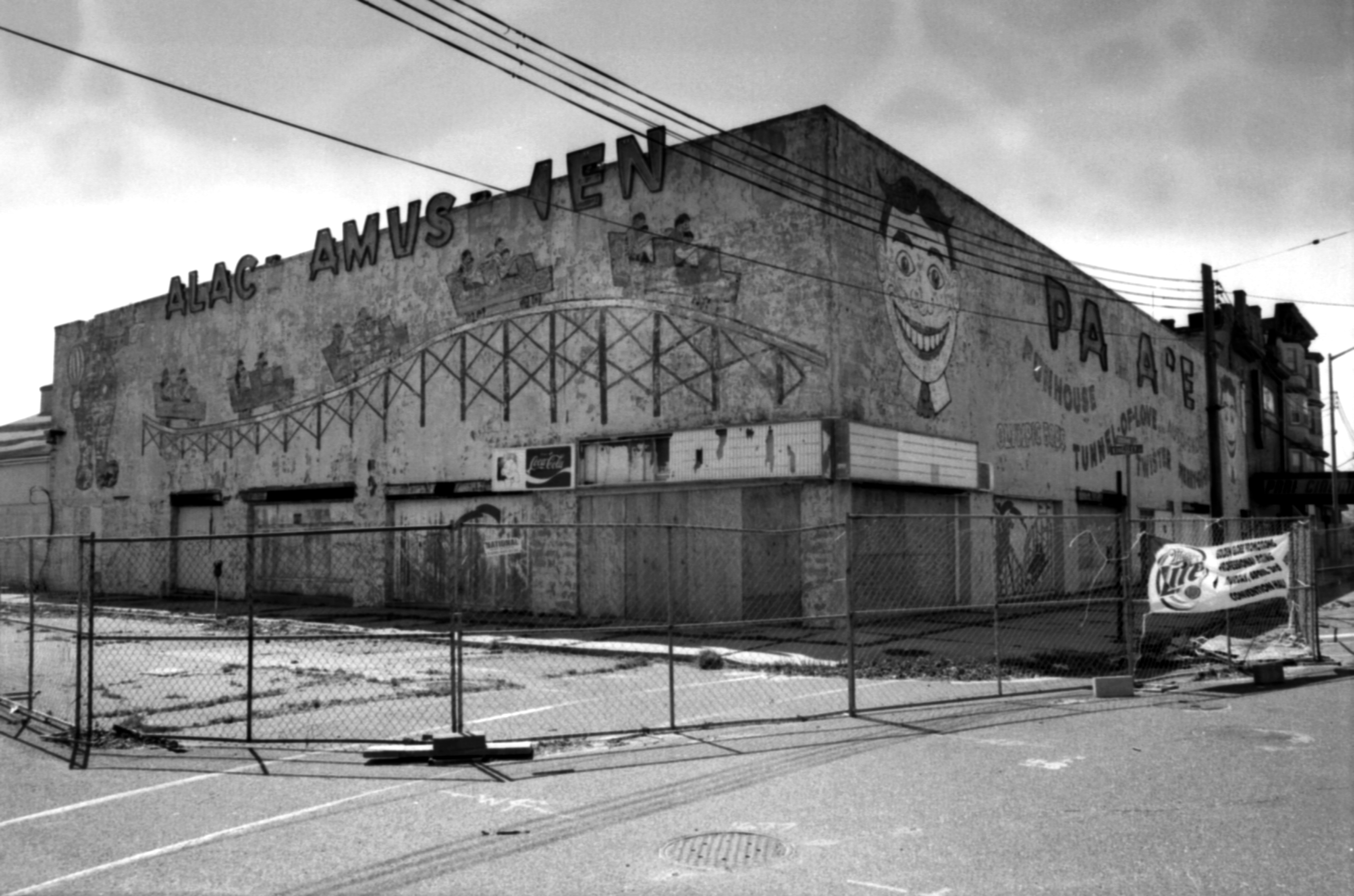 Palace Amusements